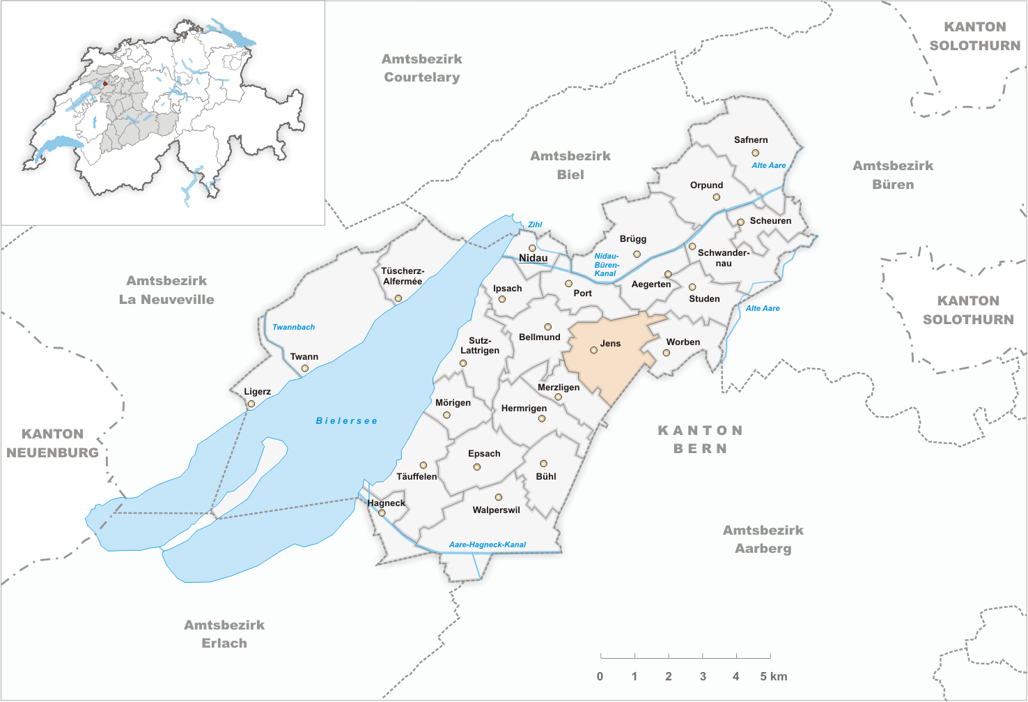 Municipality Jens